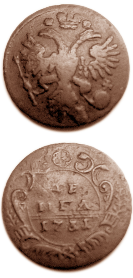 Copper denga, 1731